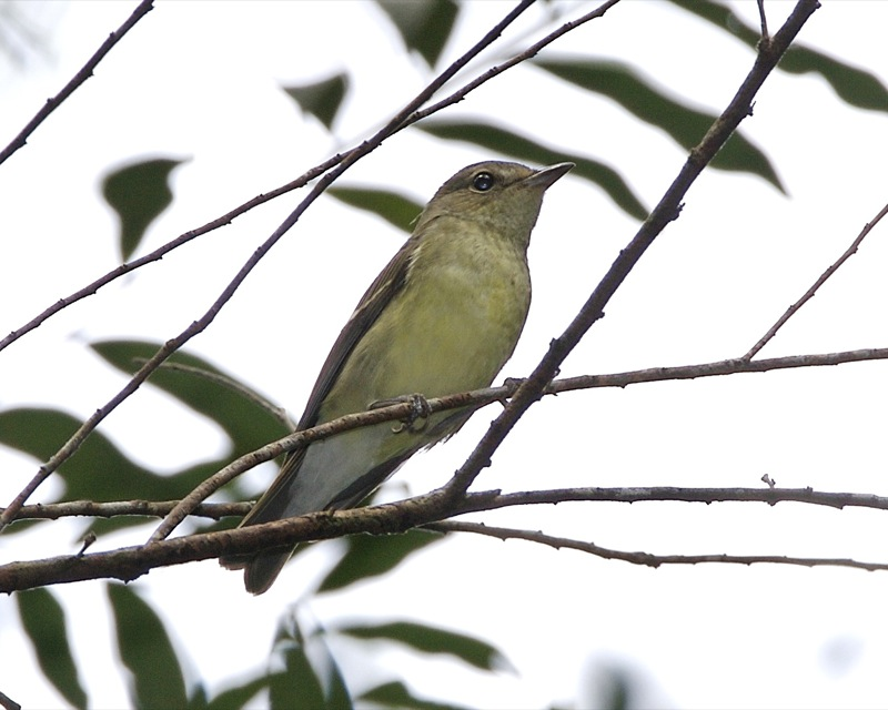 Yellow-rumped Flycarcher - female. Panti forest, Johor, Malaysia.